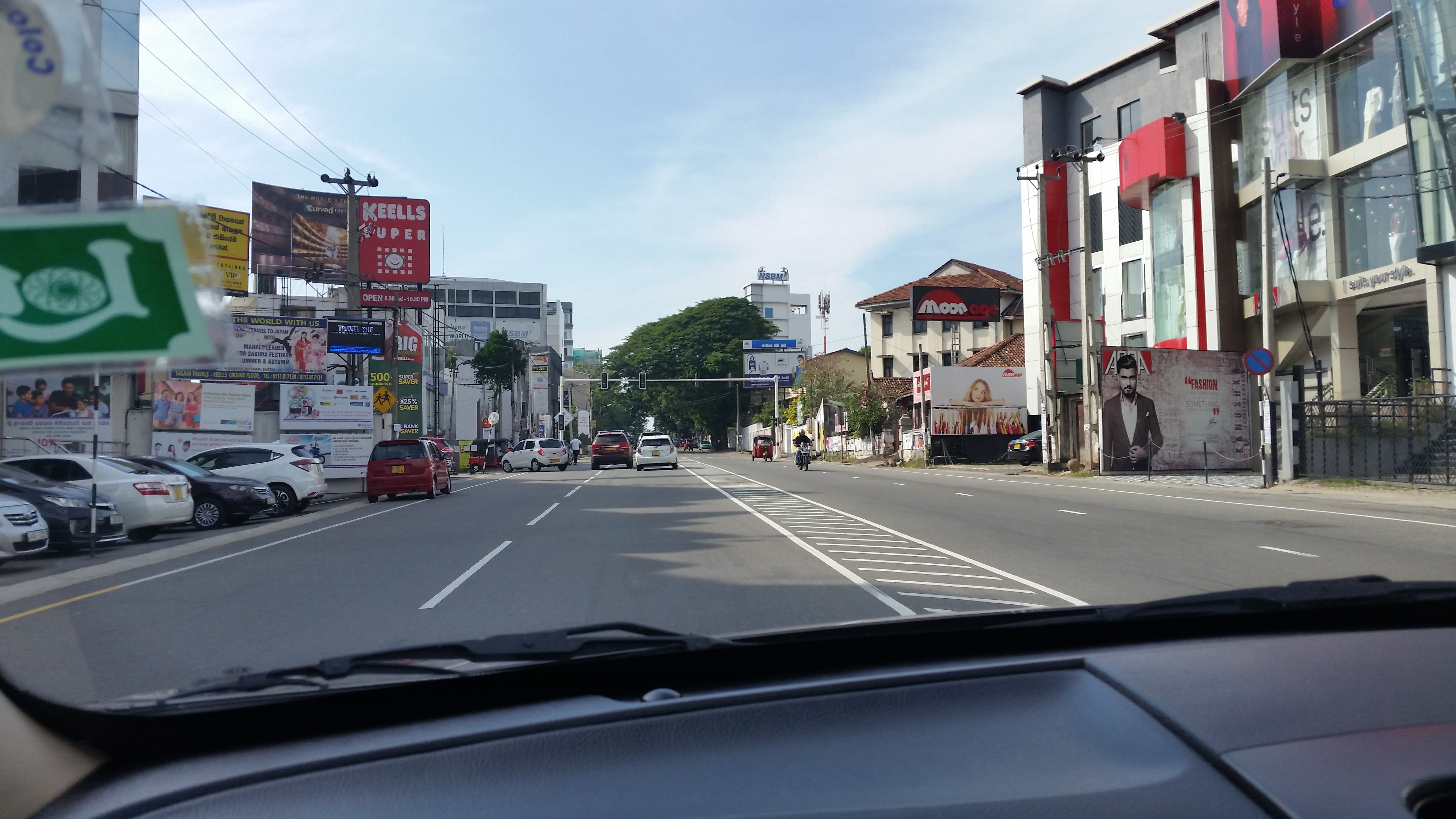 Colombo December 2016